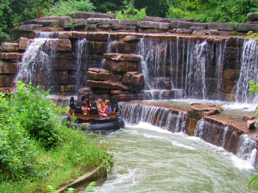 Wild Water Canyon